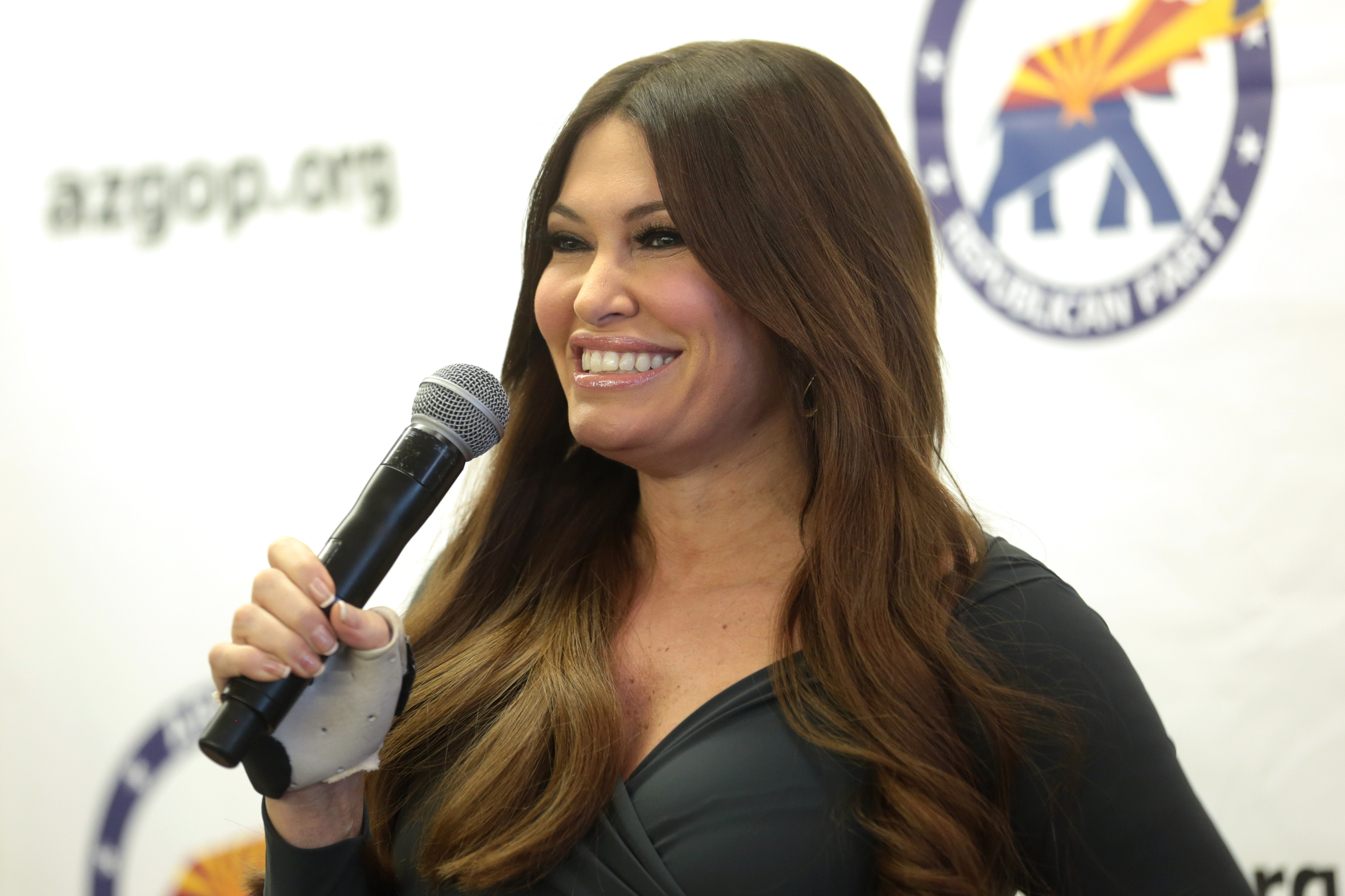 Kimberly Guilfoyle speaking with supporters at a rally with Donald Trump, Jr. at the West Valley GOP Office in Sun City, Arizona.